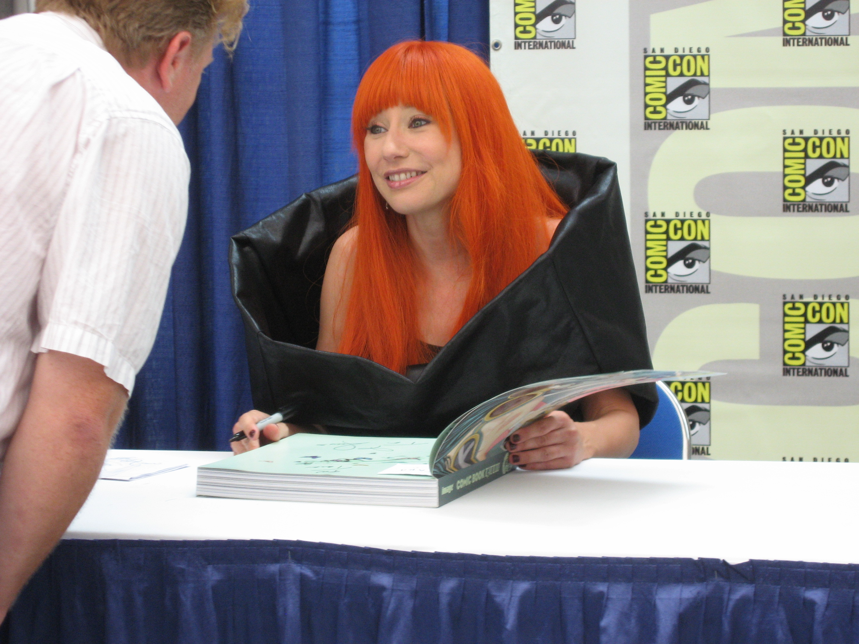 Tori Amos about to sign the Comic Book Tattoo paperback edition at the 2008 Comic Con.